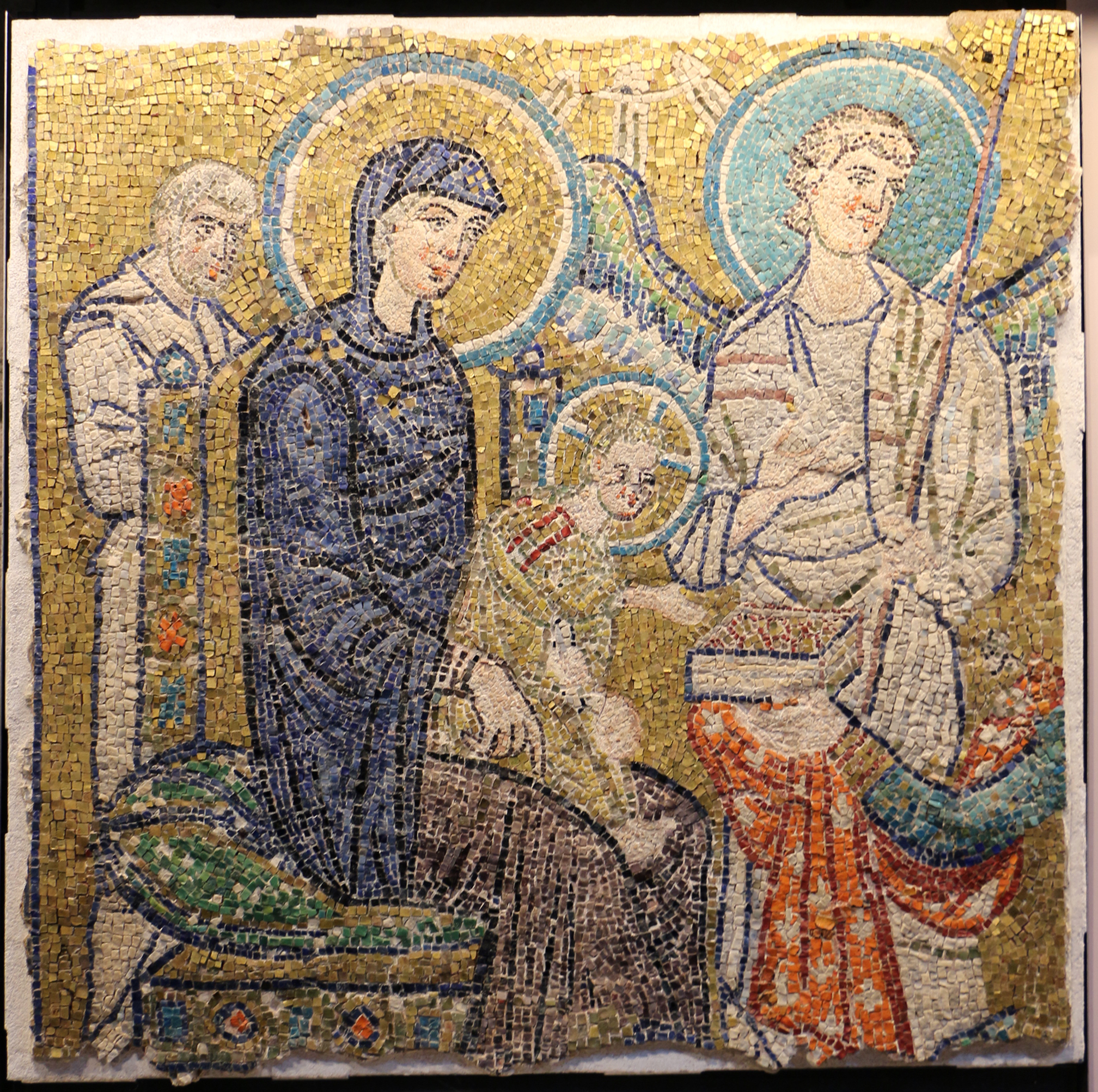 Santa Maria Antiqua (Rome) - Interior